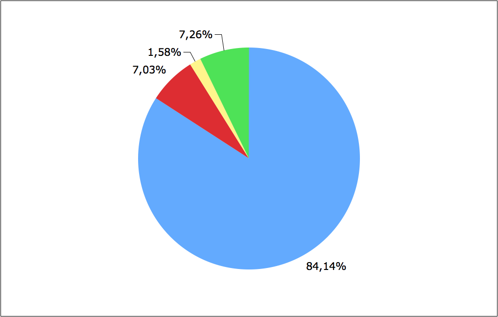 Citizenship of the Estonian Population, created in Microsoft Excel. Data is always from July 2, 2010 and taken from Estonia.eu. Estonian: 1.148.895